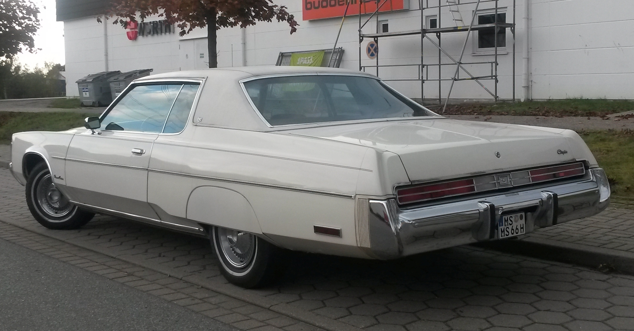 Chrysler Newport C-Body Hardtop Coupé (1976-1978). Licence Plate modified